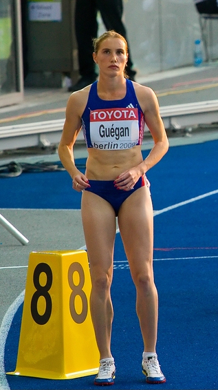 Elodie Guegan - start of the 800 metres Semifinal at the 2009 World Championships in Athletics.